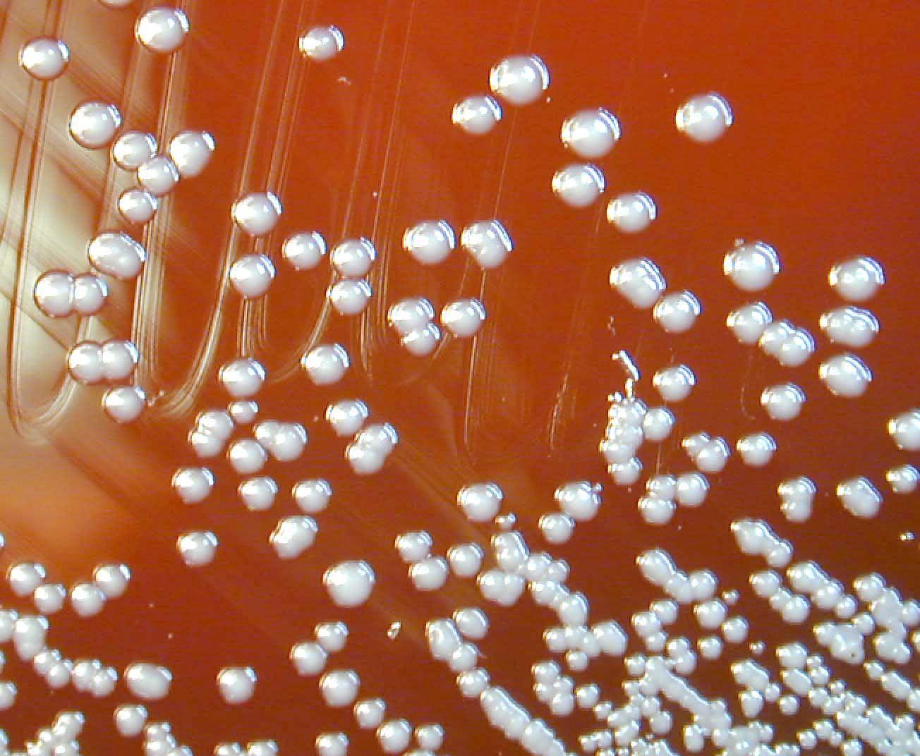 Burkholderia pseudomallei colonies on a Blood agar plate. Obtained from the CDC Public Health Image Library. Image credit: CDC/Courtesy of Larry Stauffer, Oregon State Public Health Laboratory (PHIL #1926), 2002.